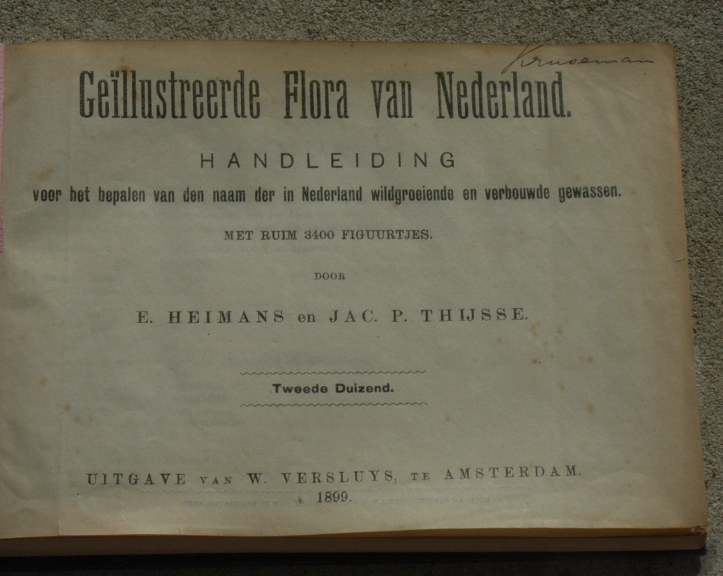 Title page of ten first edition of Heimans, E., Thijsse, Jac. P., Geïllustreerde Flora van Nederland. Amsterdam: Versluys.